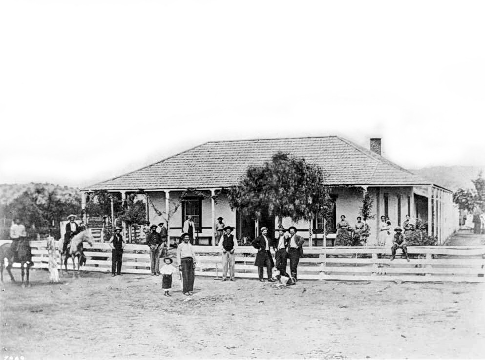 Rubototm’s hotel and stagecoach station Spadra California 1867